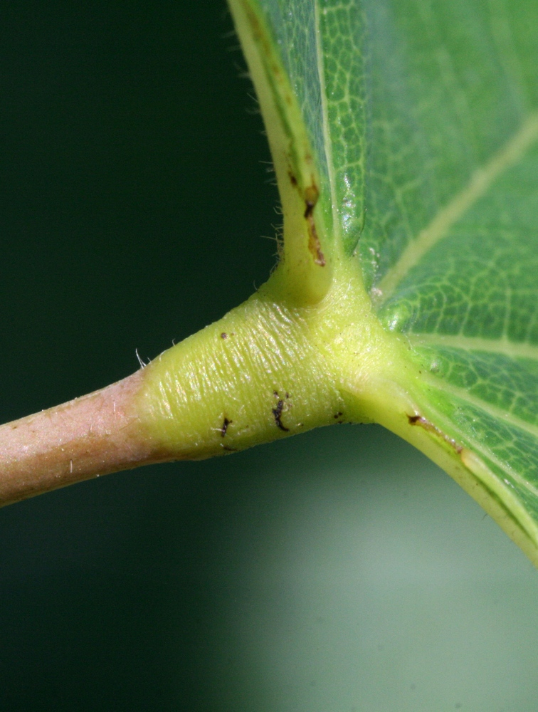 Detail of pulvinus on the top of petiole of Cercis canadensis